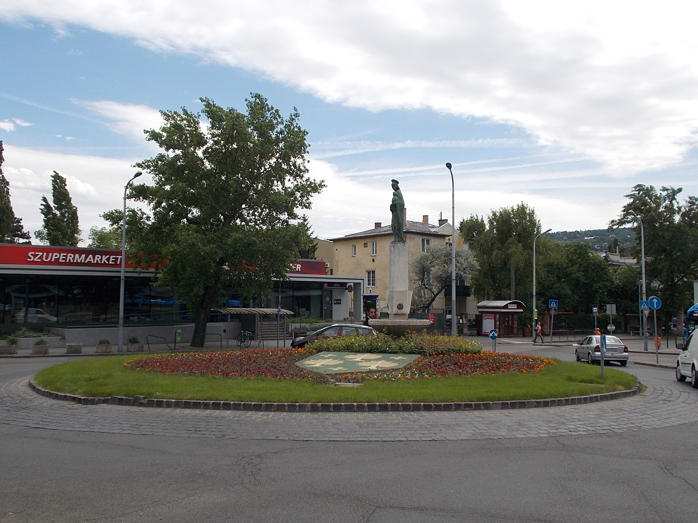 Pasaréti tér. Szűz Mária szobor és díszkút. Boldogfai Farkas Sándor 1,9 m-es bronz szobra 1939-ben készült. - Budapest II. kerület. Pasaréti út kb.100